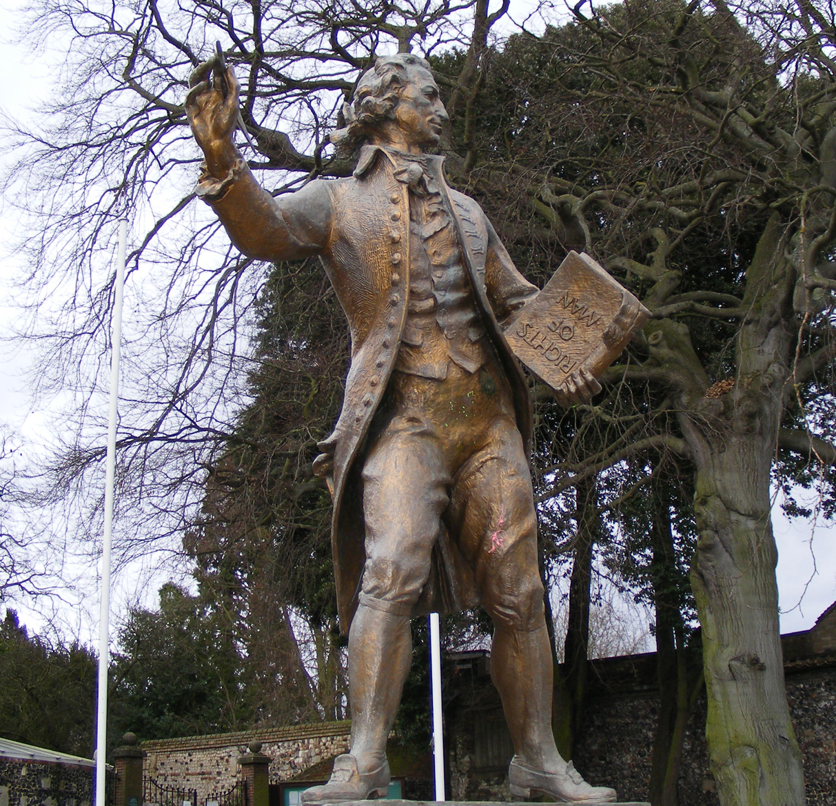 Thomas Paine statue, Thetford, UK